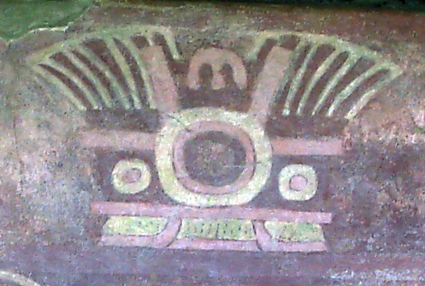 Headress with central mirror from a mural at Teotihuacan, Mexico.